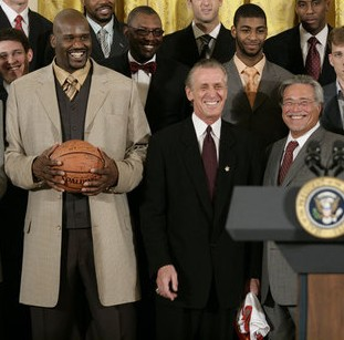 From the left: Shaquille O'Neal, Pat Riley and Micky Arison at the White House